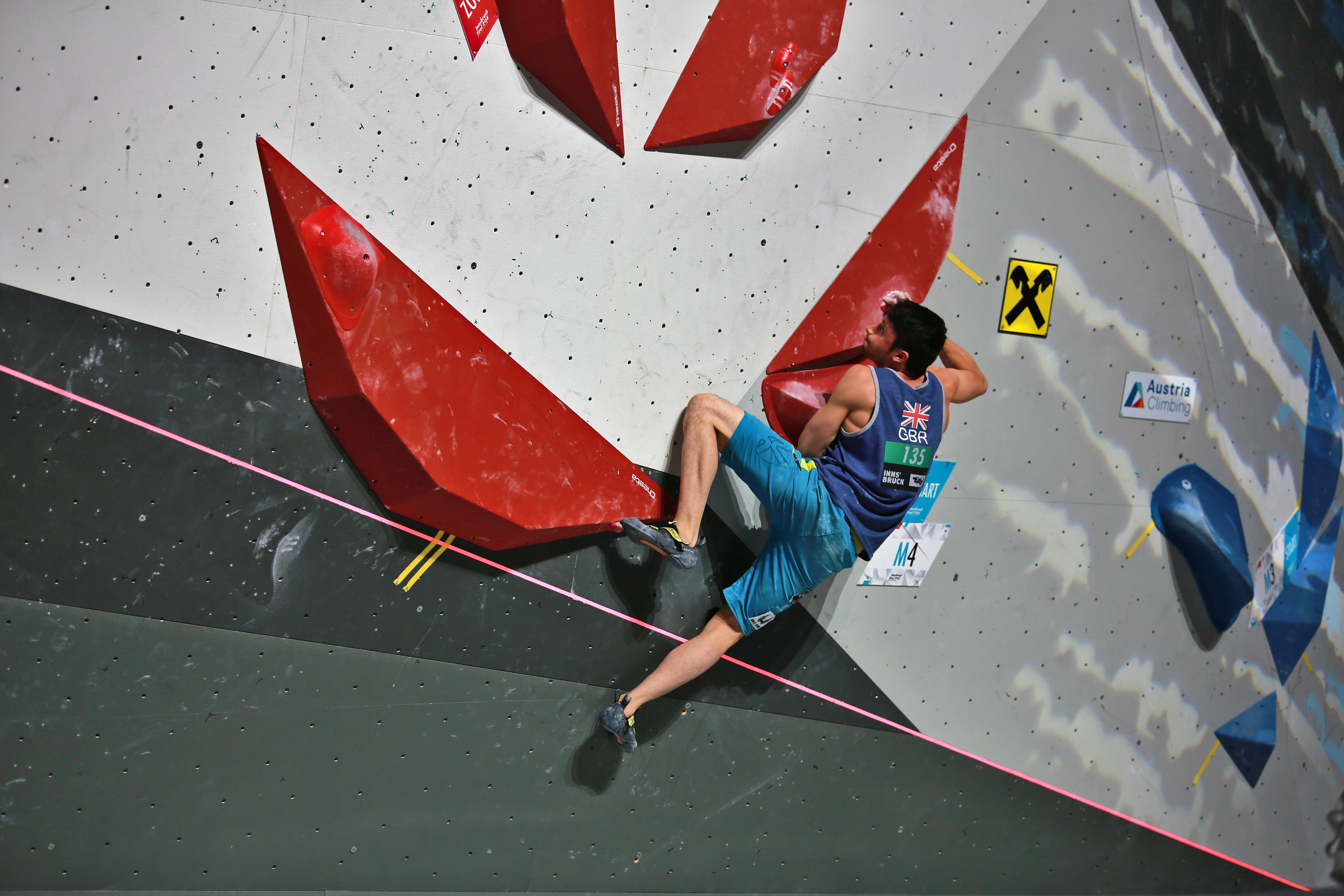 Climbing World Championships 2018 Boulder Final Phillips